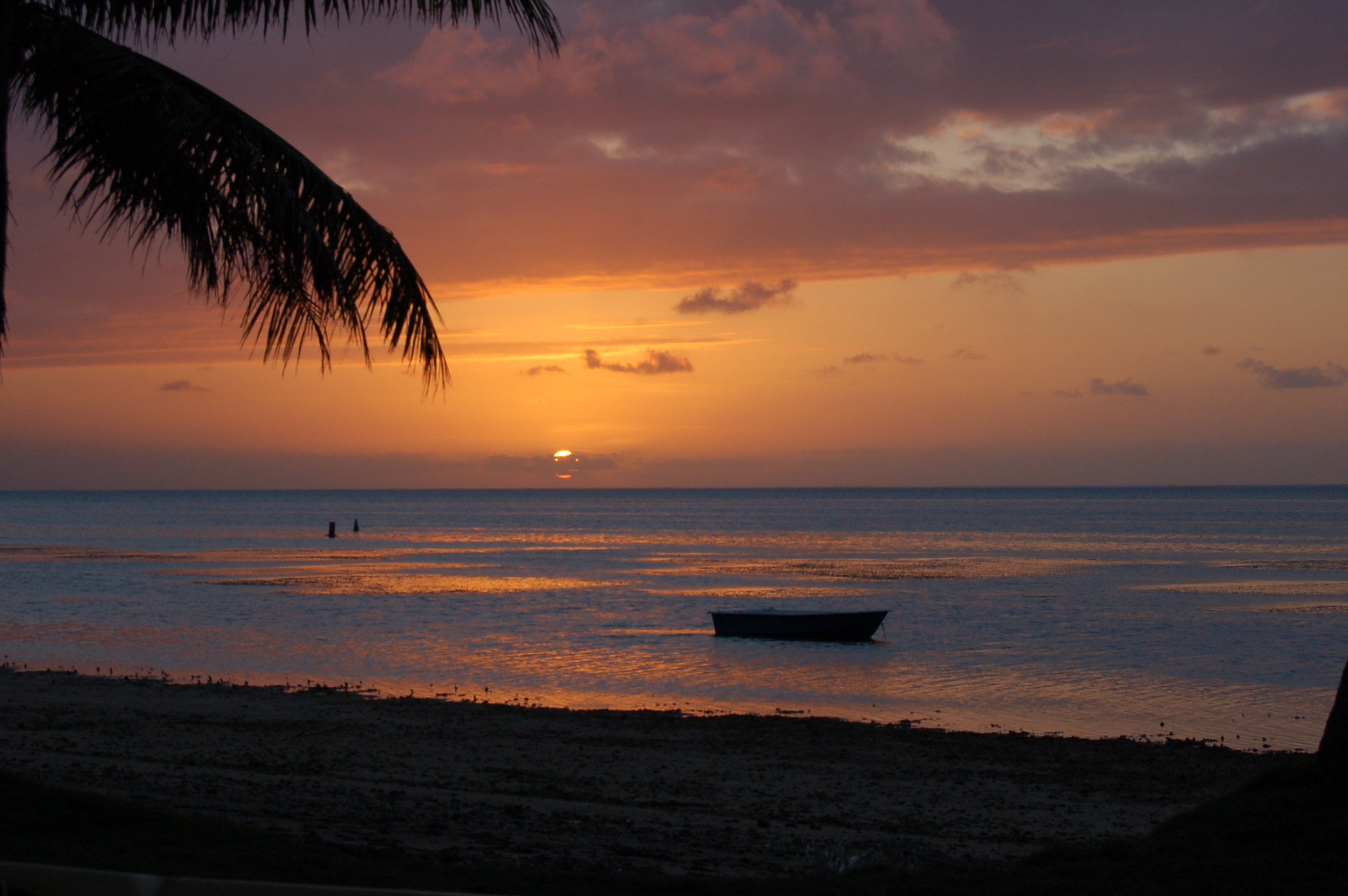 Author: Pamela Miller